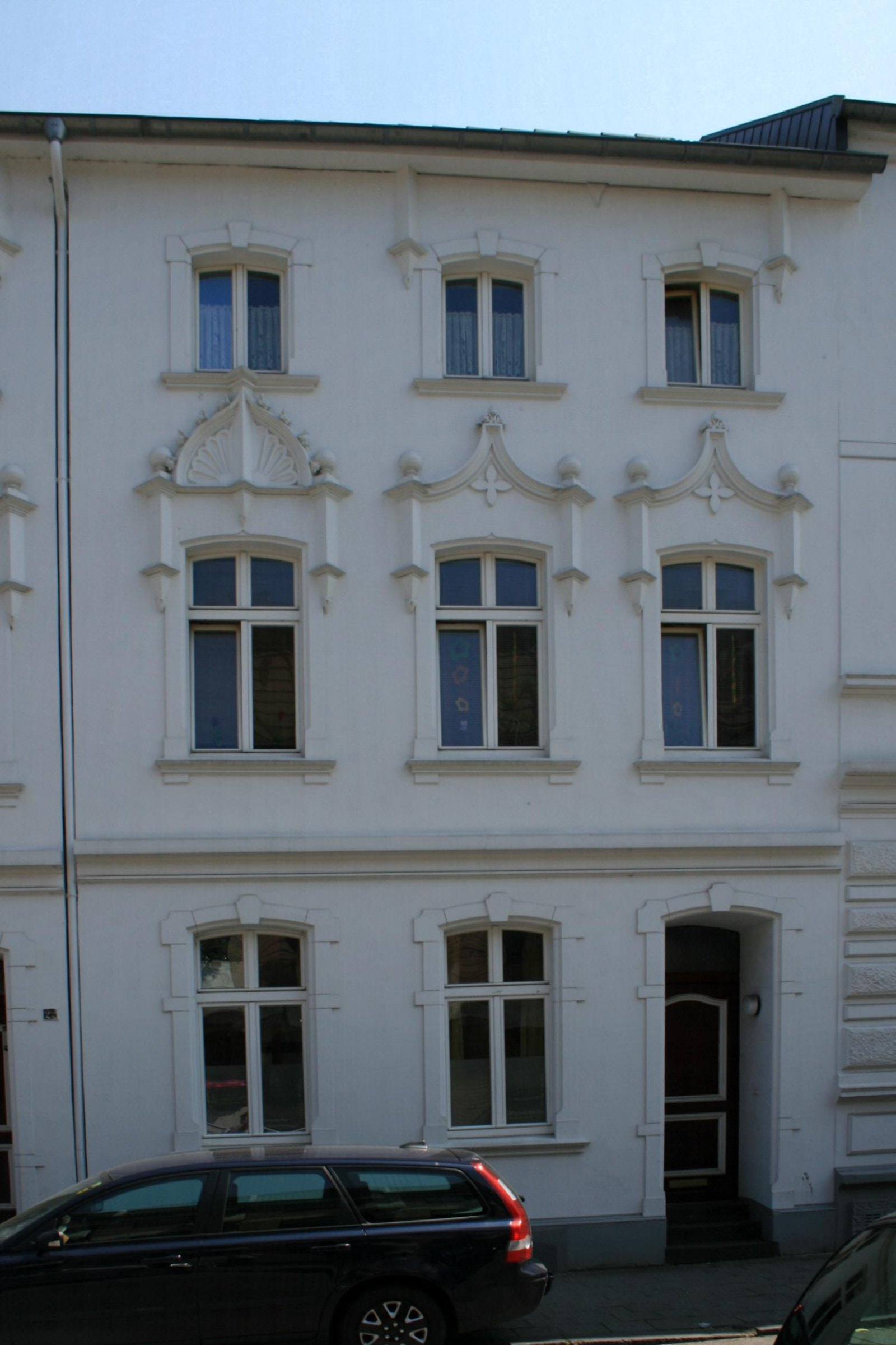 Cultural heritage monument No. Sch 016 in Mönchengladbach